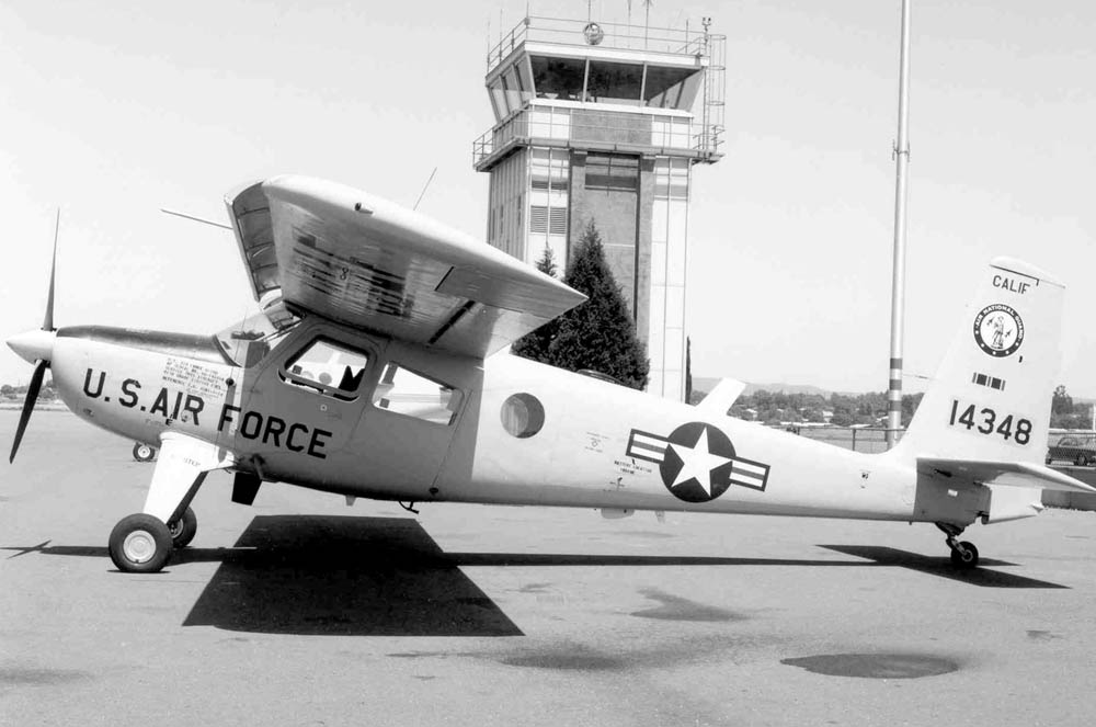 Helio U-10D Calif ANG May 1970